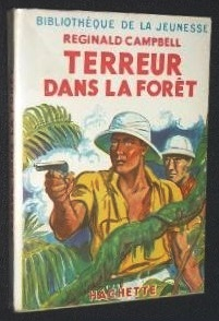 Bibliothèque de la jeunesse, a French book collection for children.